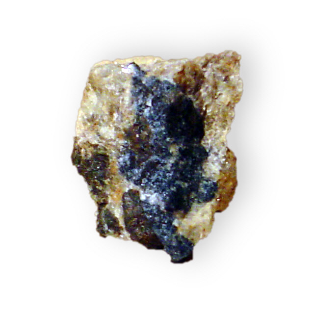 These mineral images are free to use how you wish.